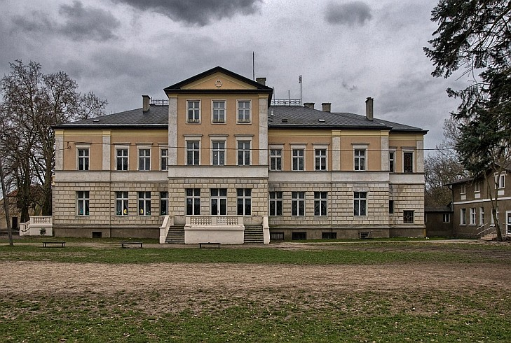 Jeziorki pałac Tiedemanna